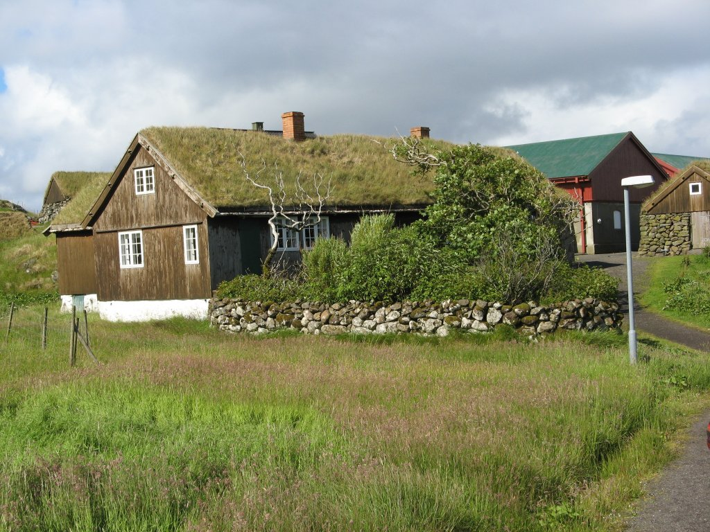 Taken at the Outdoor Museum at Hoyvik in the Faroes by David Cross - July 2008.